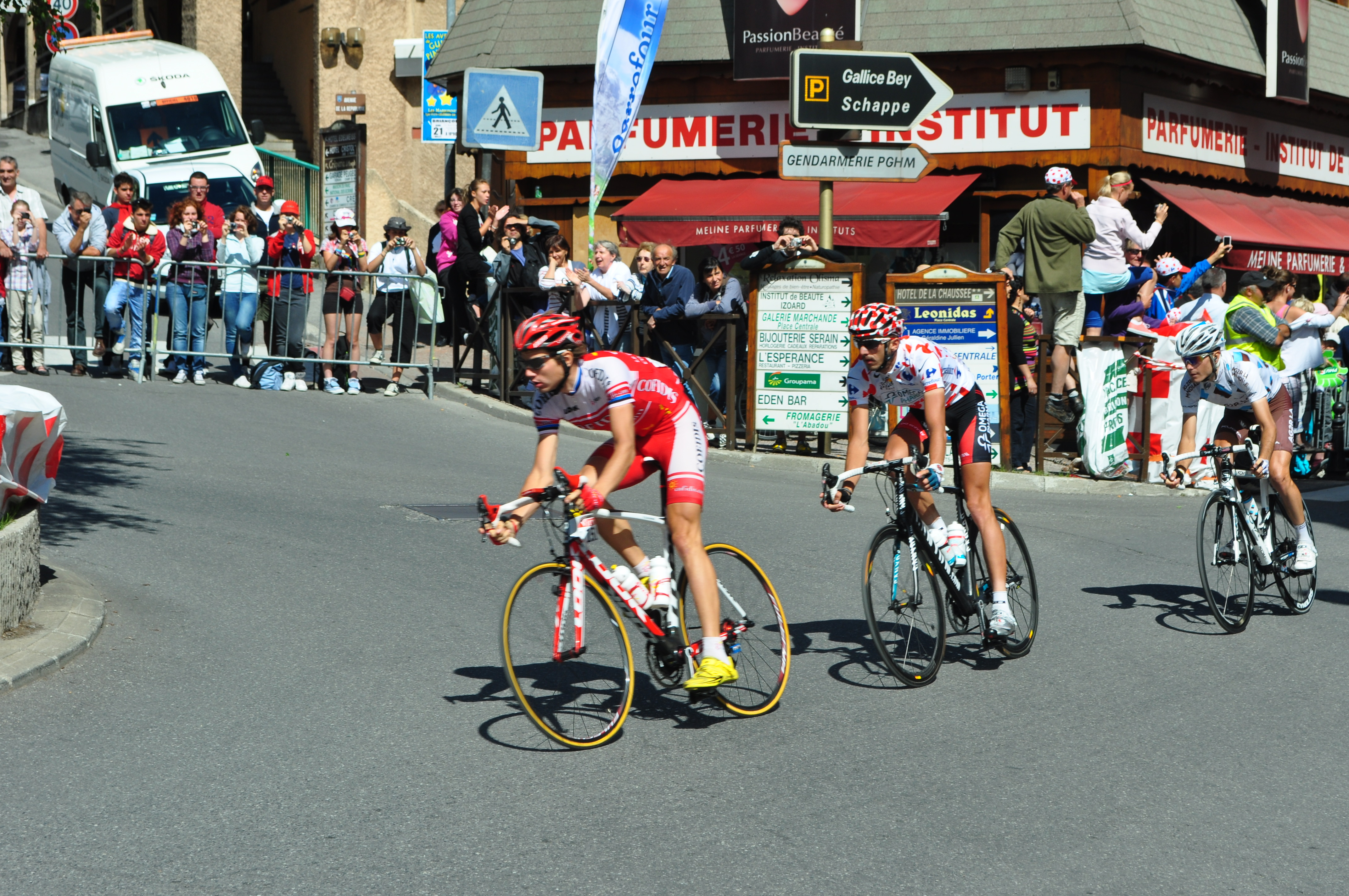 Rein Taaramae, Jelle Vanendert, and a member of Ag2r-La Mondiale riding up Briancon during stage 18 of the 2011 Tour de France.